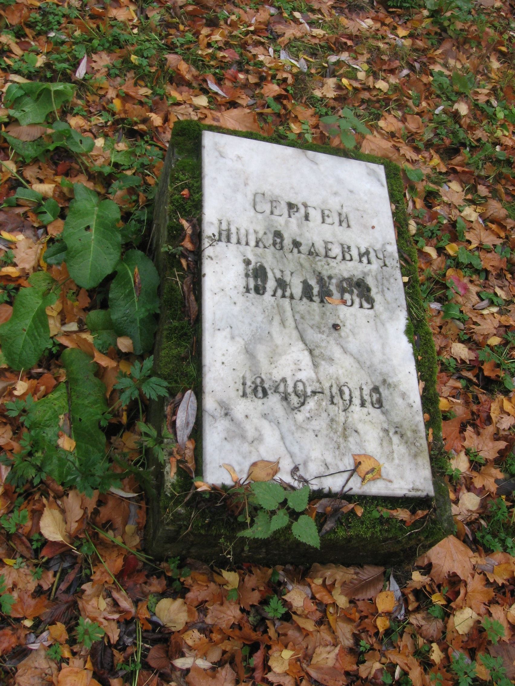 Grave of Sergey Yuzhakov